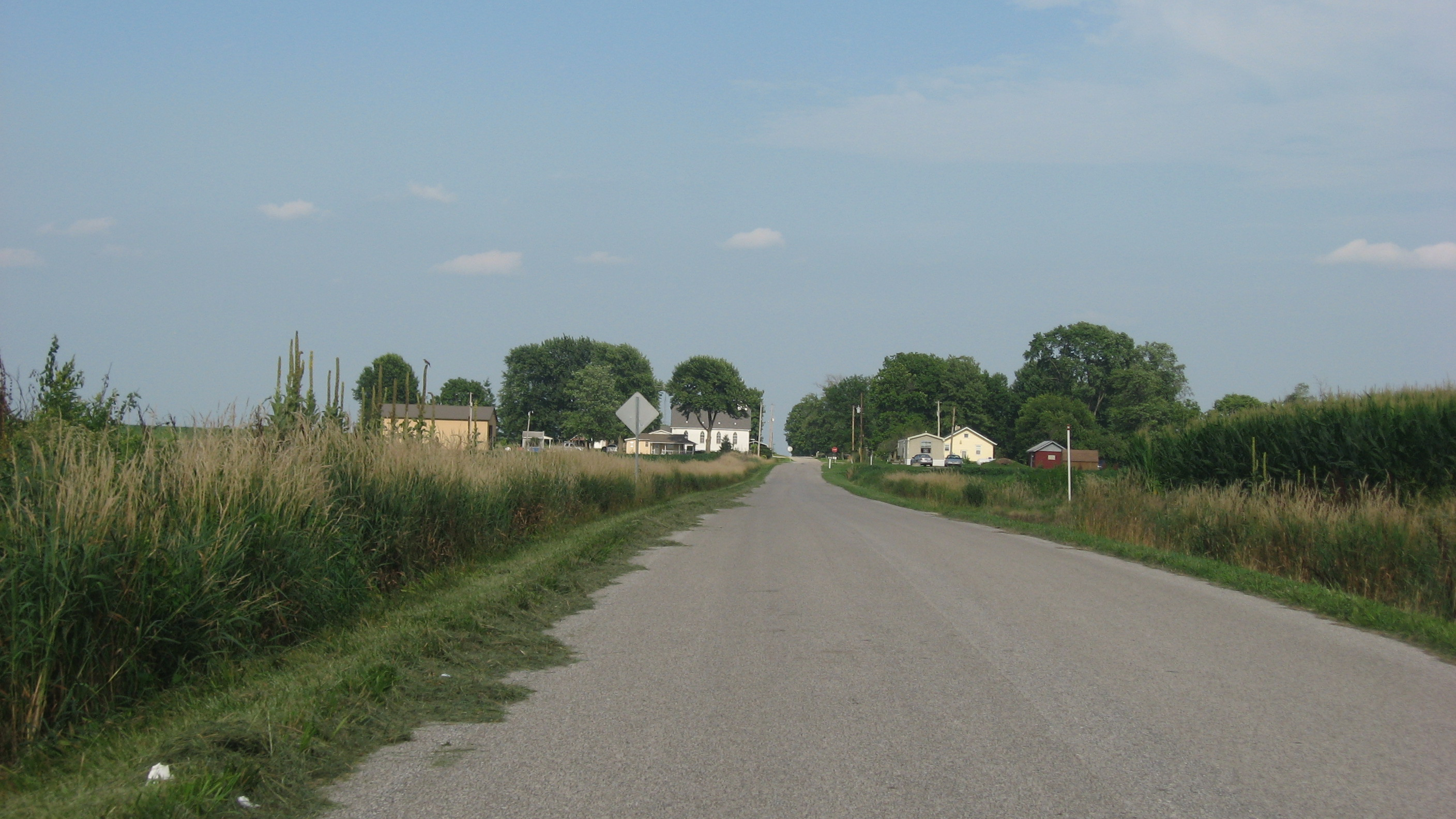 Approaching Cornettsville, Indiana, United States, from the west on E700N.